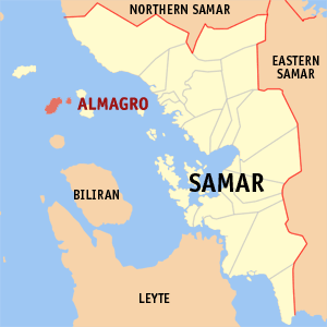 Map of Samar showing the location of Almagro